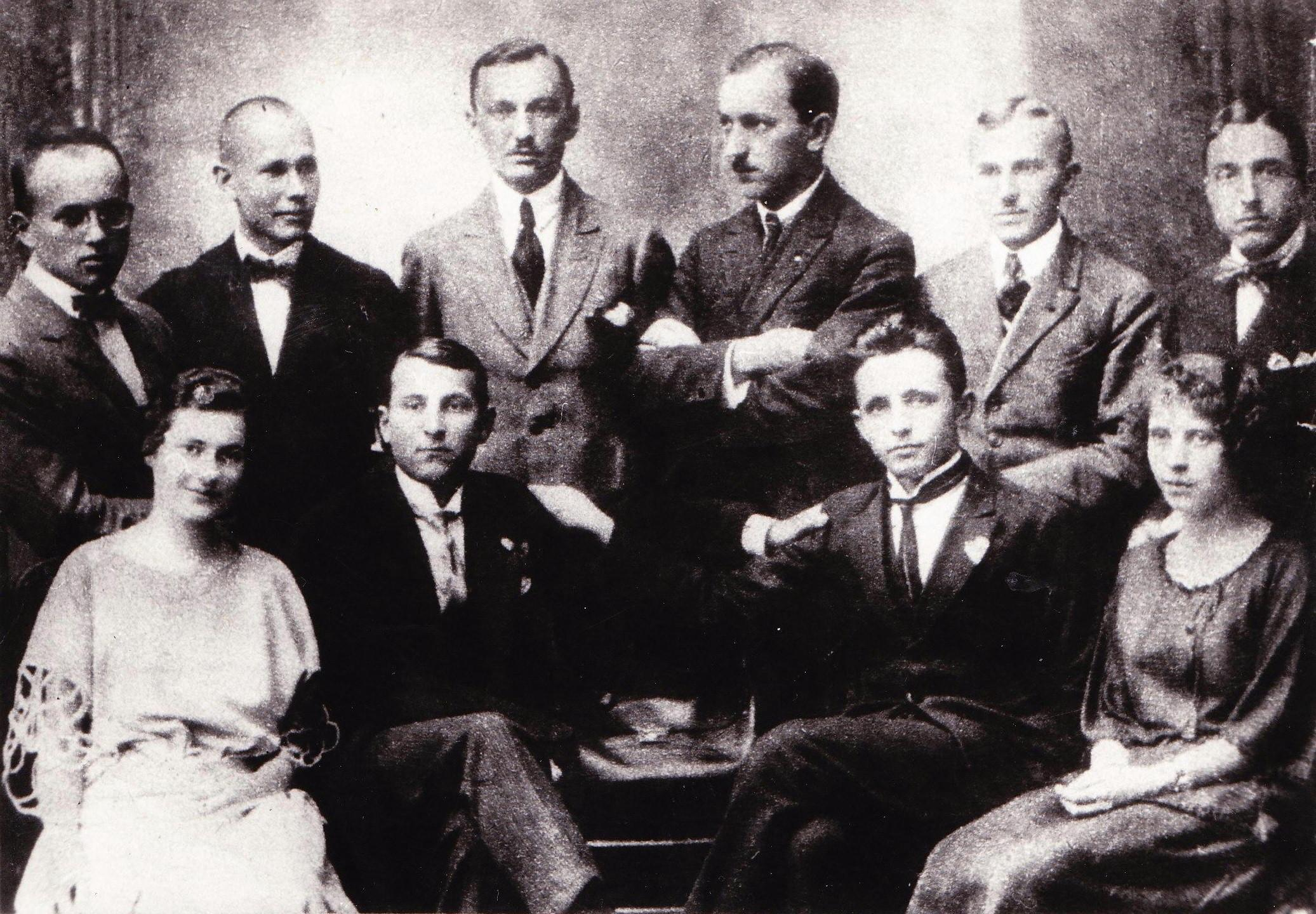 Bratnia Pomoc Board - sitting on the left - Tomasz Piskorski, president, sitting on the right - vicepresident Stanislaw Dubois